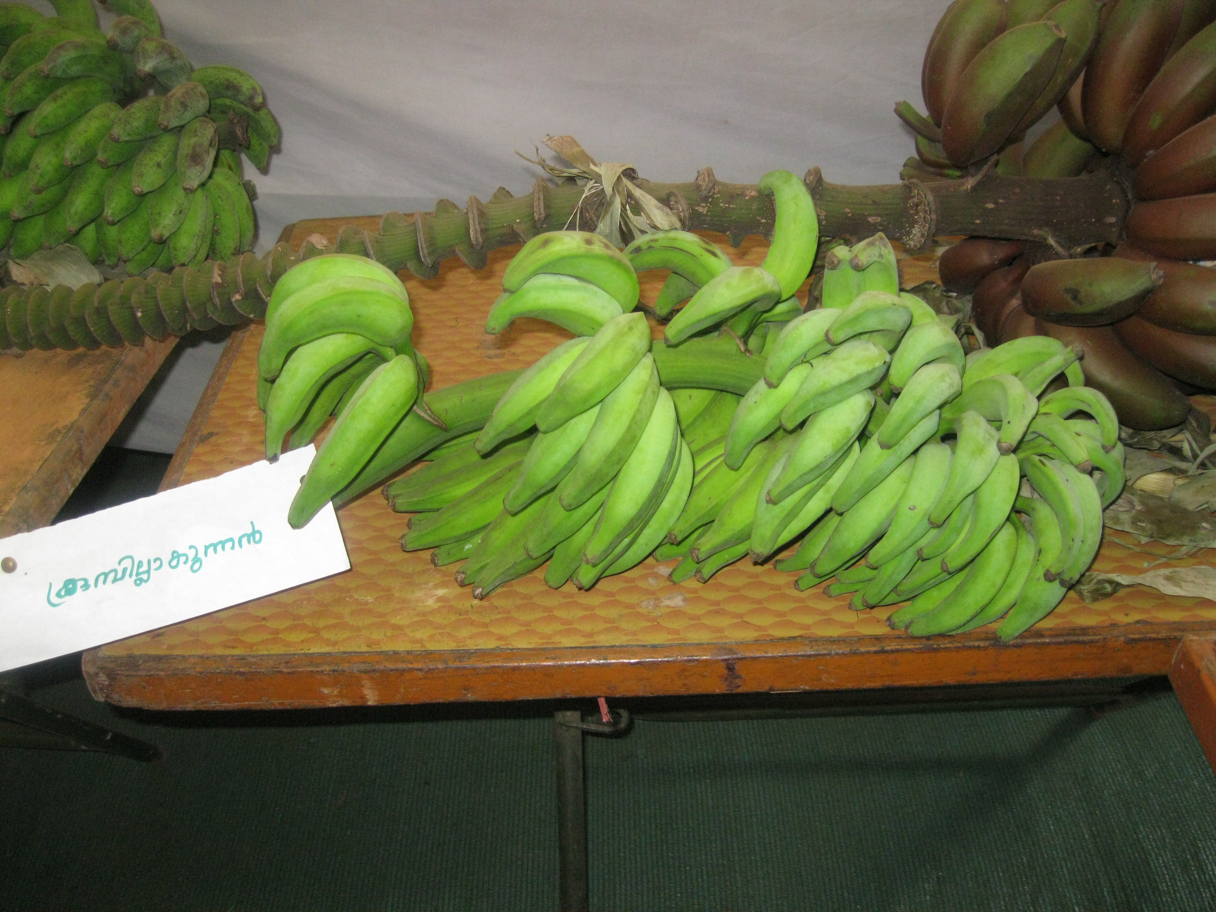 koopilla kunnan